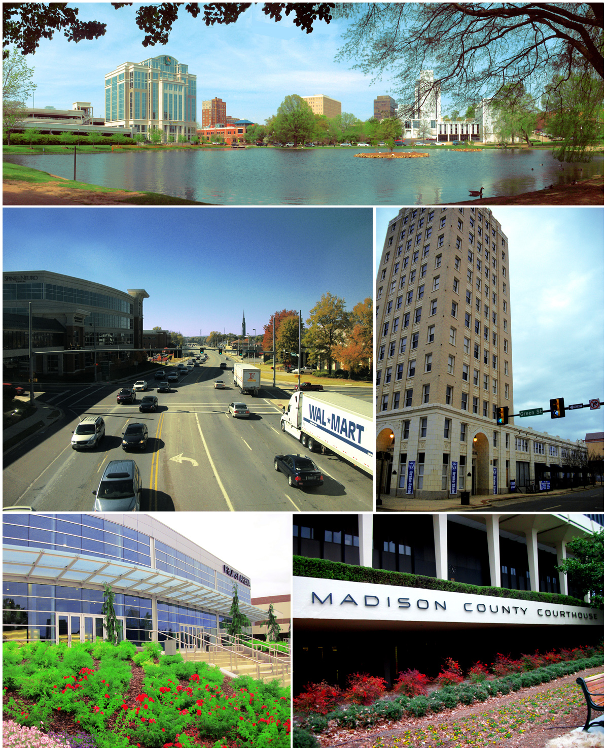 Photo montage of Huntsville, Alabama